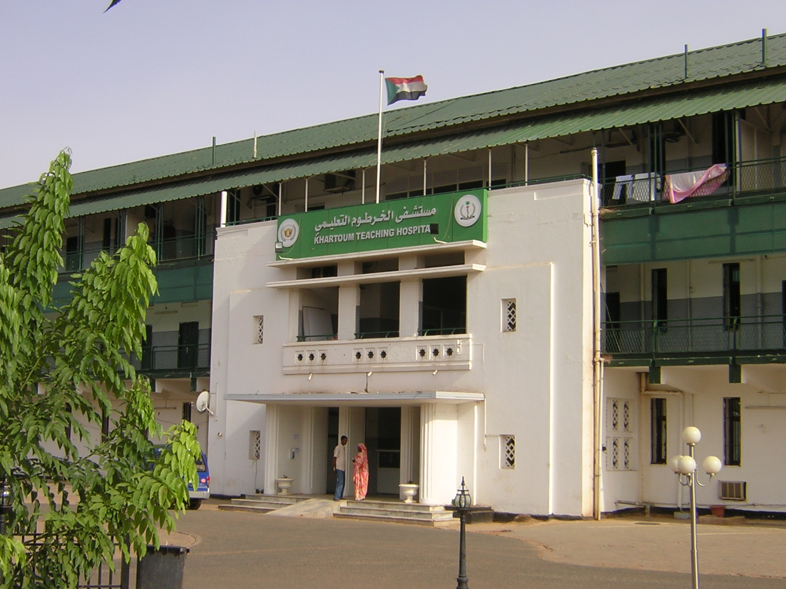 Khartoum Teaching Hospital, Khartoum, Sudan.